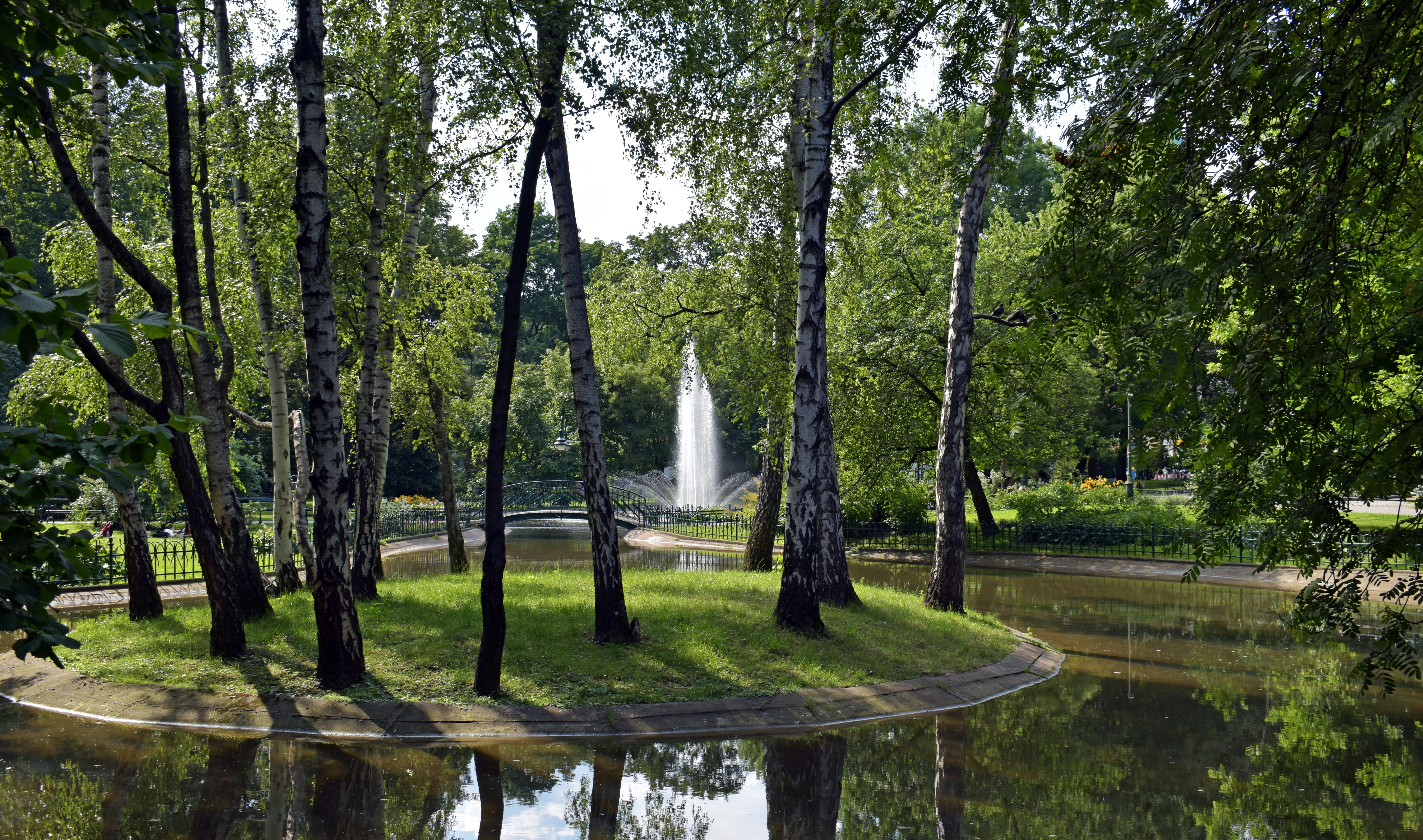 Planty Park, pond and fountain, Old Town, Krakow, Poland